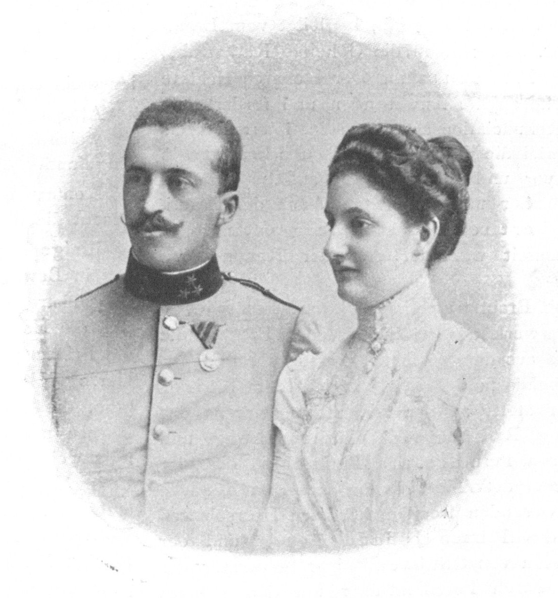 Double portrait of Duke Robert of Württemberg (1873-1947) with his wife Archduchess Maria Immakulata of Austria (1878-1968) taken in 1900, shortly after their wedding.